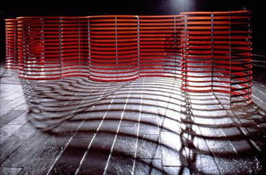 Detail of Backfire, a site-specific installation by artist Merle Temkin, at the CUNY Mall, NYC in 1984. Materials: plexi-mirror strips, fluorescent paint, galvanized steel; dimensions: 6' x 32" x 5'.